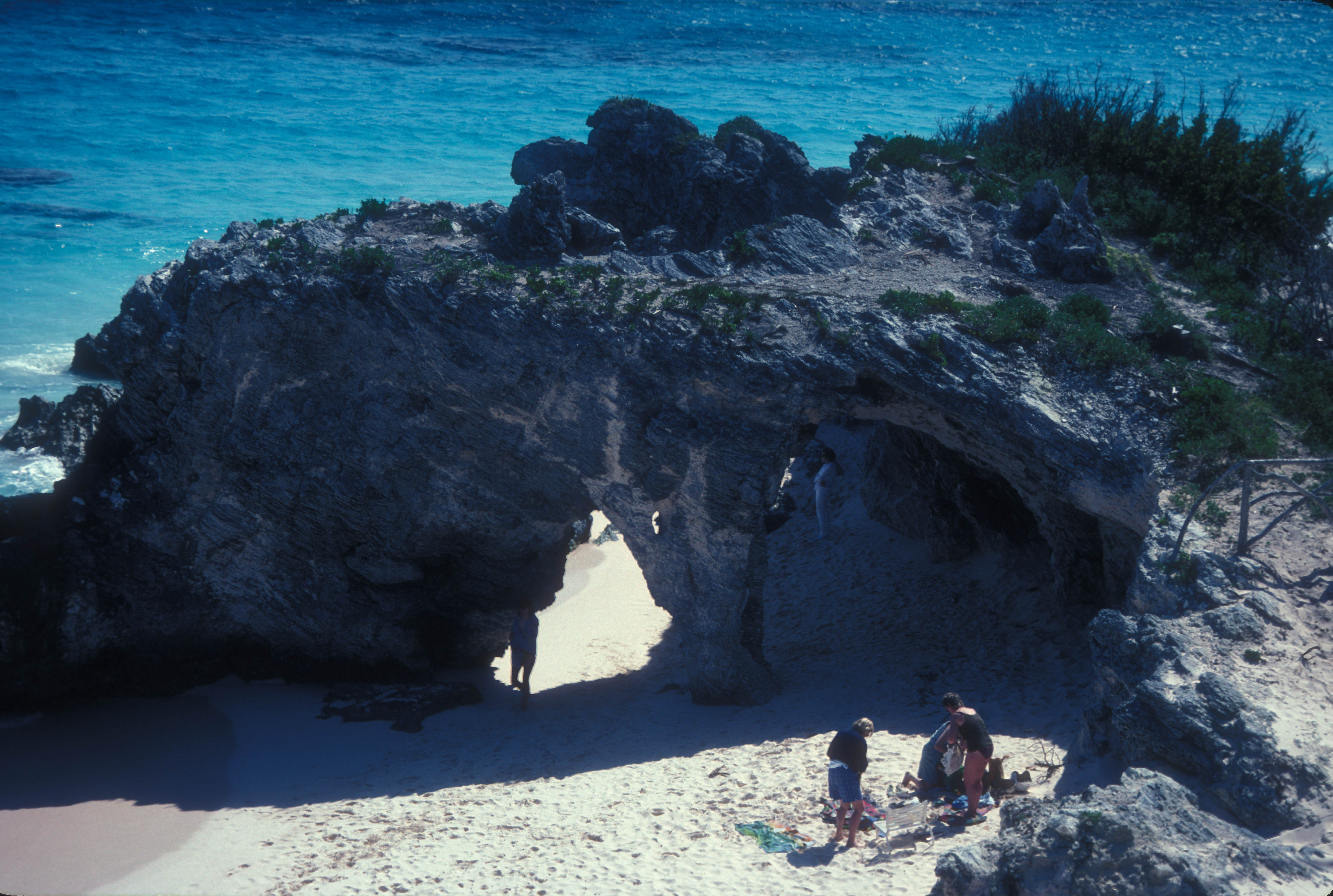 LOCATED ON THE SOUTH SHORE NEAR EXCLUSIVE TUCKER'S TOWN IN THE MOST EXCLUSIVE AND BEST BEACH AREA ON BERMUDA. THESE ARCHES MAY HAVE BEEN DESTROYED IN A HURRICANE IN 2003